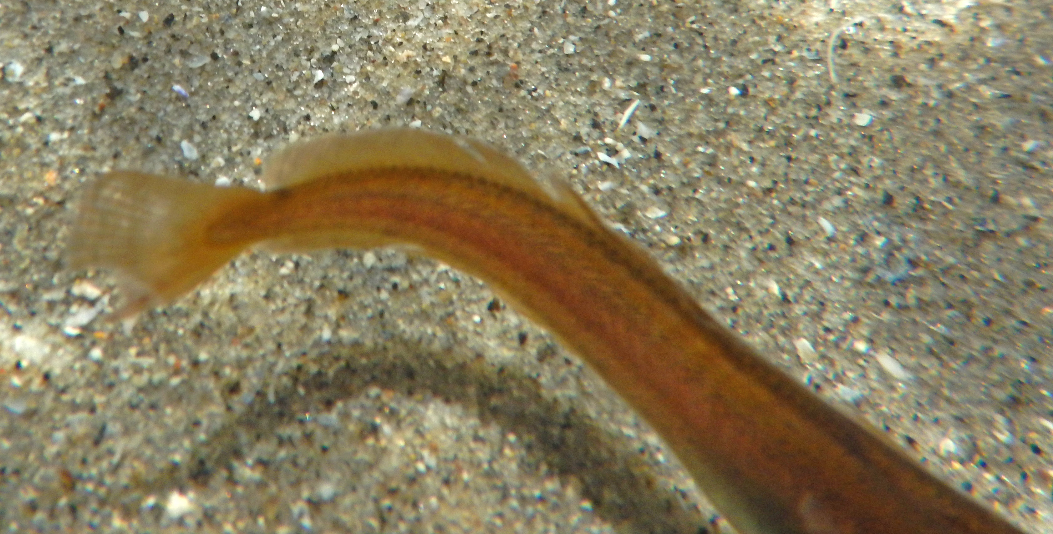 End of the body of a juvenile "Ciliata mustela" (Fivebeard rockling) photographed in a down filled with some rocks (at low tide), in Wimereux (northern France) July 7, 2016 by F Lamiot. At least 3 motelles were present on some m2